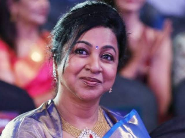 Raadhika at the 62nd Britannia Filmfare South Awards 2014